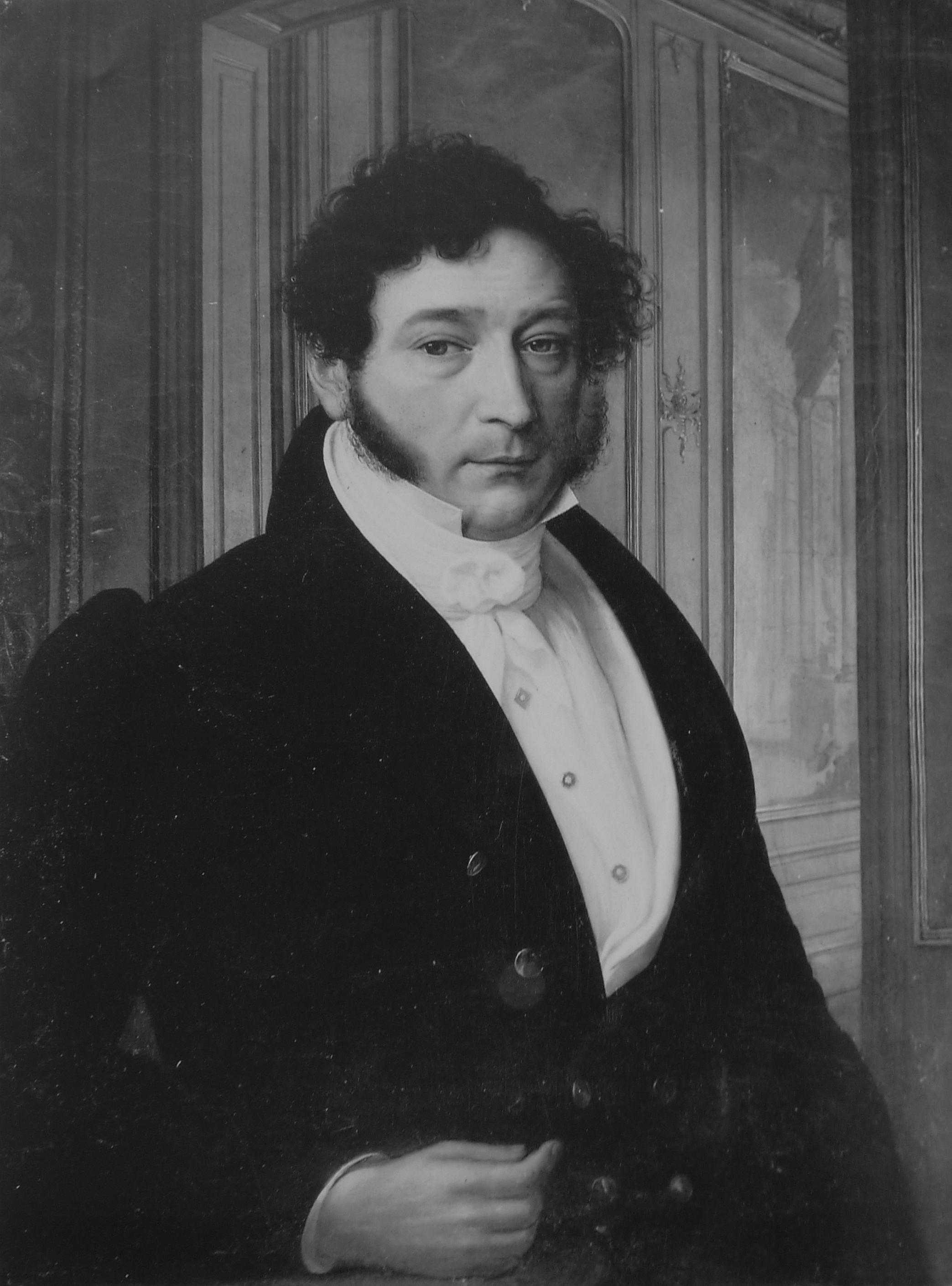 Portrait of Wilhelm Ermeler